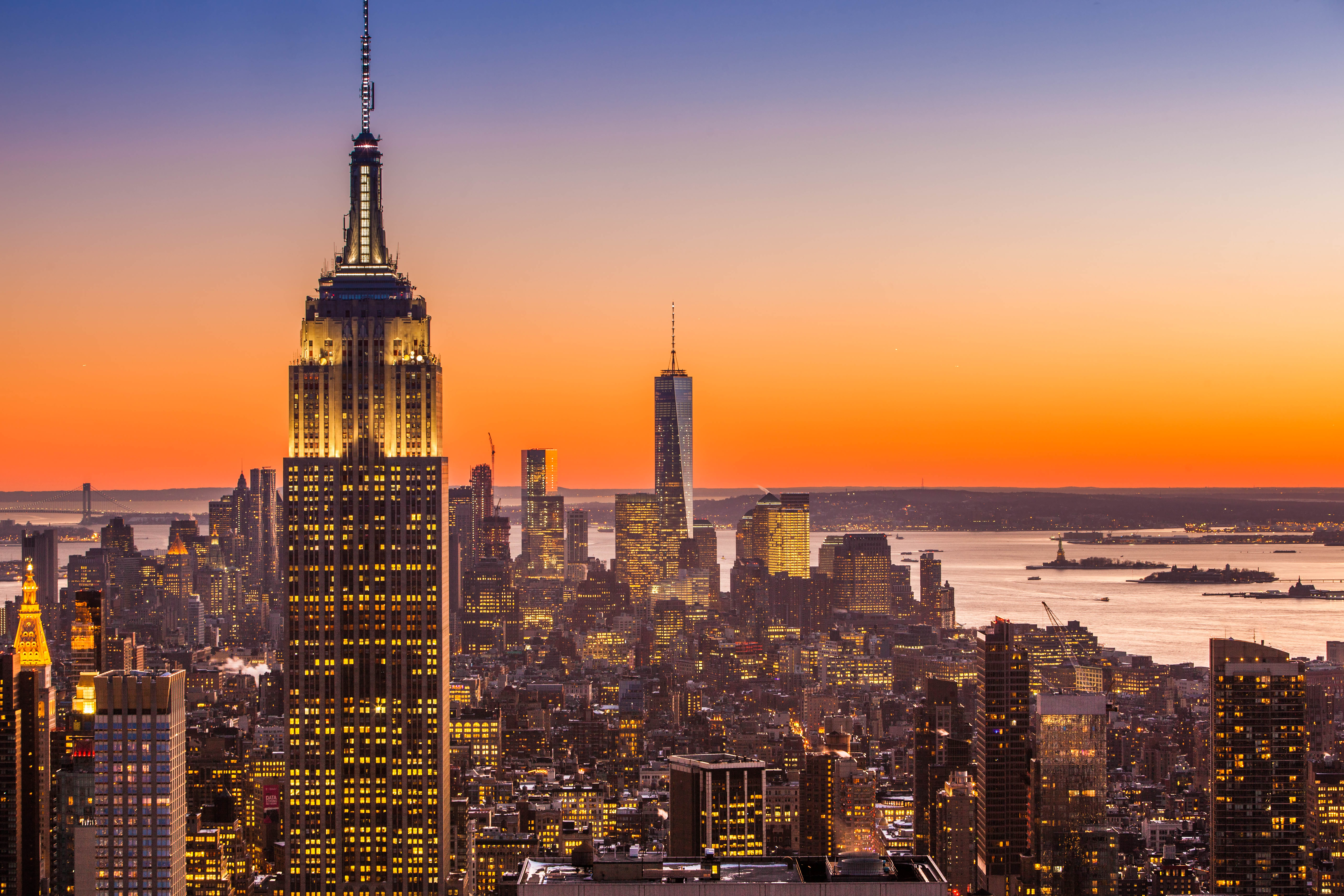 Midtown Manhattan late January 2015.